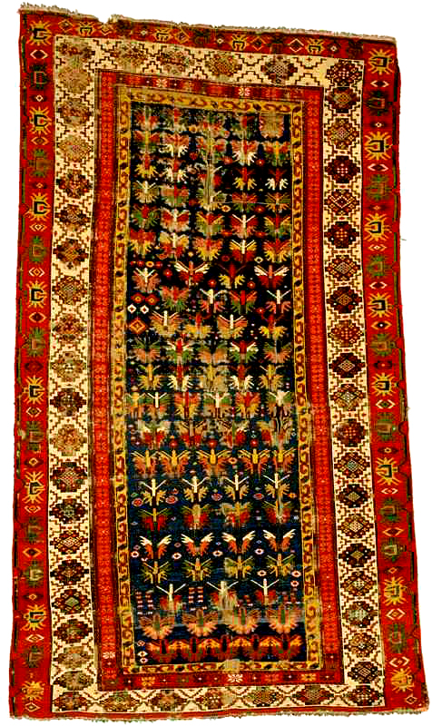 Azerbaijan Kuba carpet "Uzun dere". 19 century.